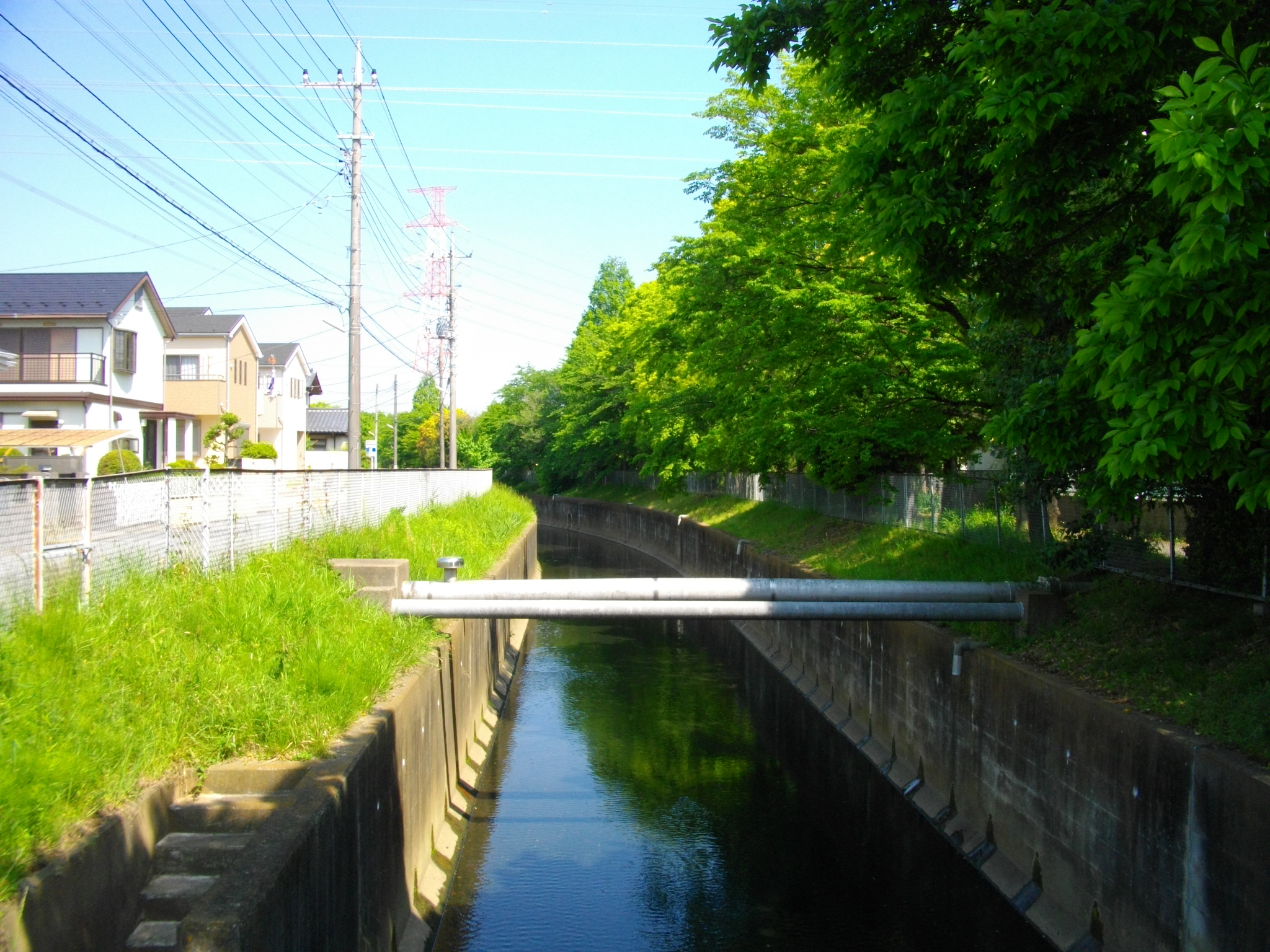 Jiganebori